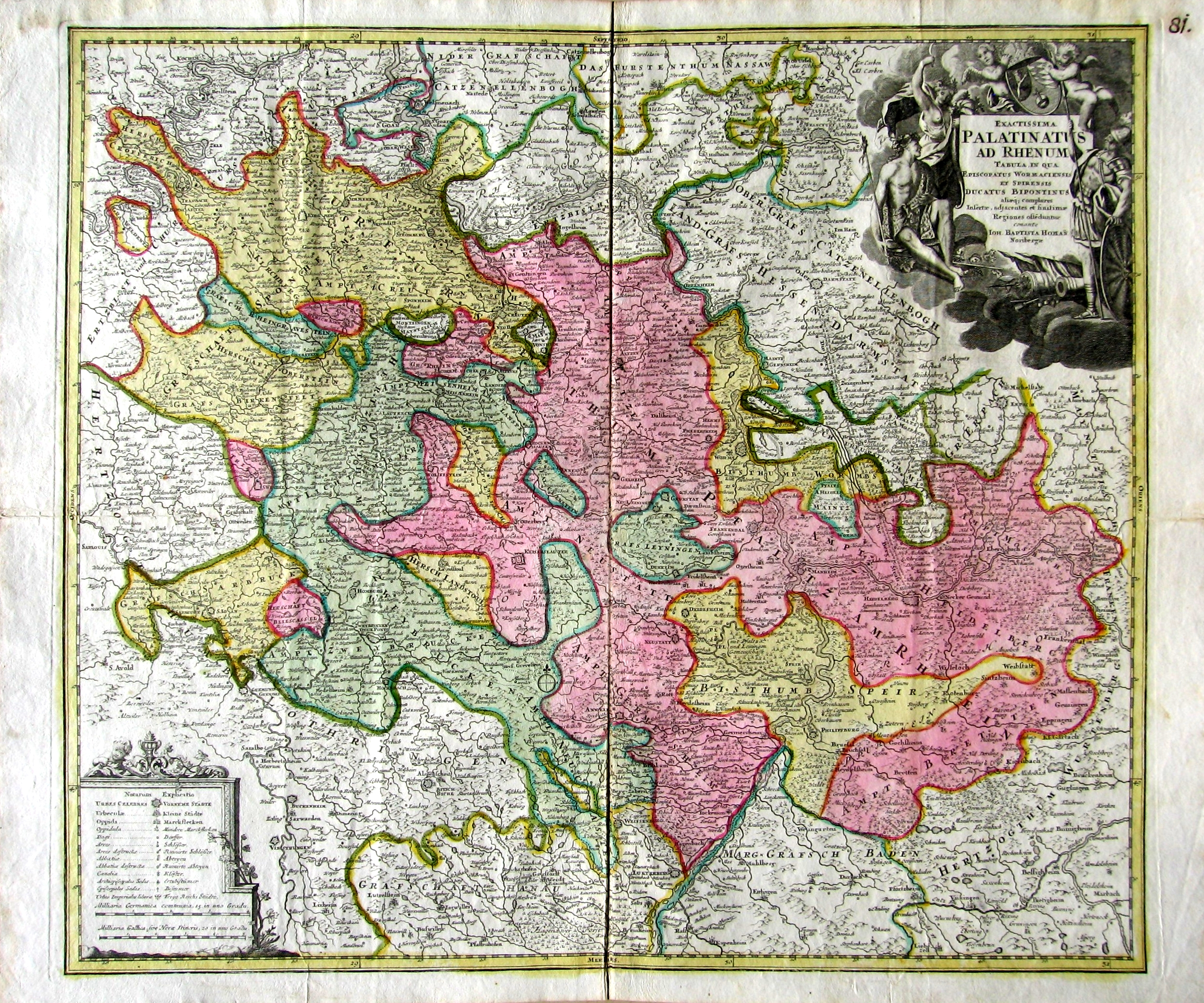 Palatinatus ad Rhenum (...)